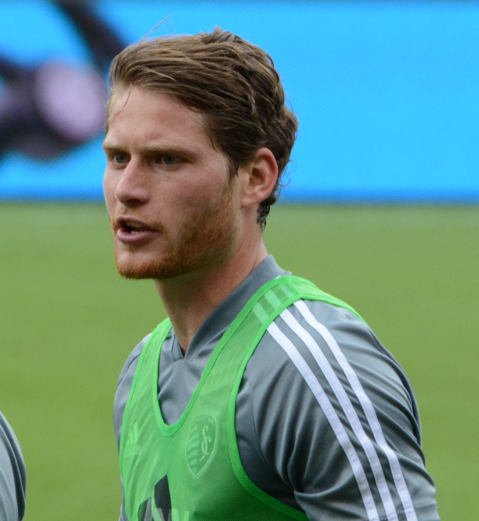 Taken during a Major League Soccer regular season match between FC Cincinnati and Sporting Kansas City at Nippert Stadium in Cincinnati, USA on April 7, 2019.